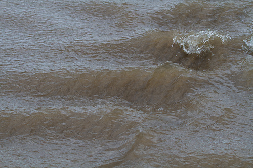 Antidunes in a small stream, by Thomas Clifton